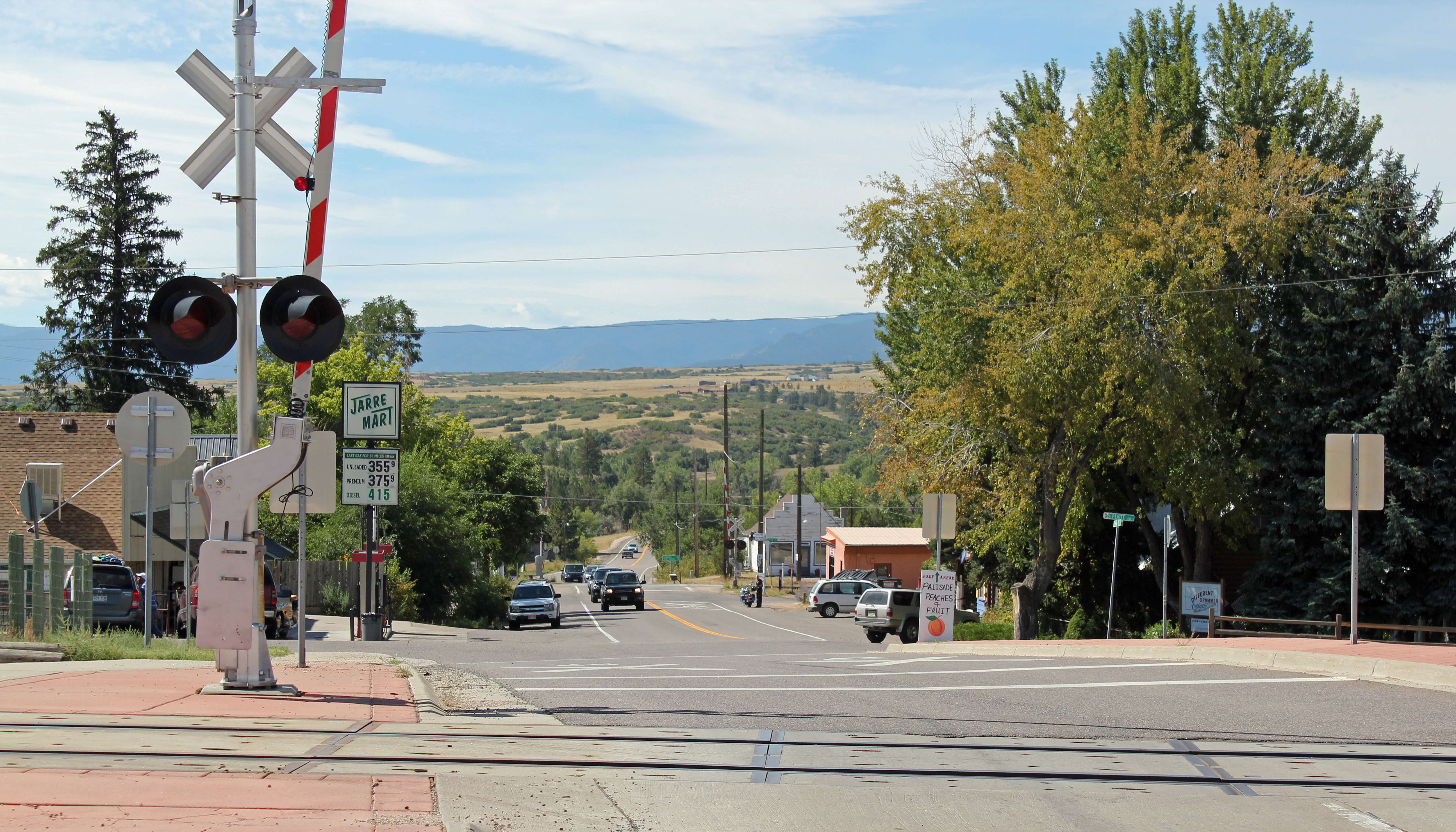 A view of Manhart Street (Colorado State Highway 67) in Sedalia, Colorado. The view is approximately to the south southwest.